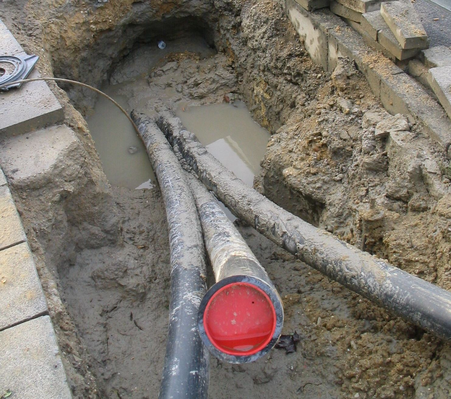 Pipes layed by a horizontal drilling machine